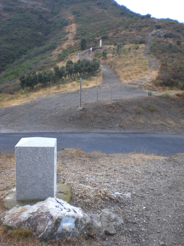 Photo of the Coll de Banyuls, near Espolla (Alt Empordà, Catalonia) and Banyuls-sur-Mer (Northen Catalonia).